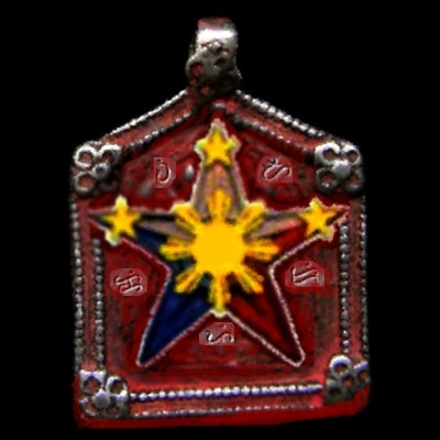 Warning: this is a fictional design used as an award on wikipedia. This is not a real-world charm. Philippine mythology barnstar protection amulet. Note: The word Wikipedia is written on the amulet (counter-clockwise) using the baybayin, an ancient Filipino script.